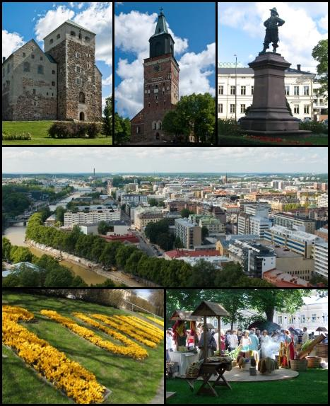 Images, from top, left to right: Top left: Turku Castle by Markus Koljonen (Dilaudid) (CC-by-sa-3.0) Top center: Turku Cathedral by Markus Koljonen (Dilaudid) (CC-by-sa-3.0) Top right: Statue of Per Brahe by Zache (CC-by-sa-3.0 & GFDL) Middle: Panorama of Turku from the tower of Turku Cathedral by Markus Koljonen (Dilaudid) (CC-by-sa-3.0) Bottom left: Turku flower sign by Matthew Clark (CC-by-2.0) Bottom right: Turku medieval market by Samuli Lintula (CC-by-2.5)